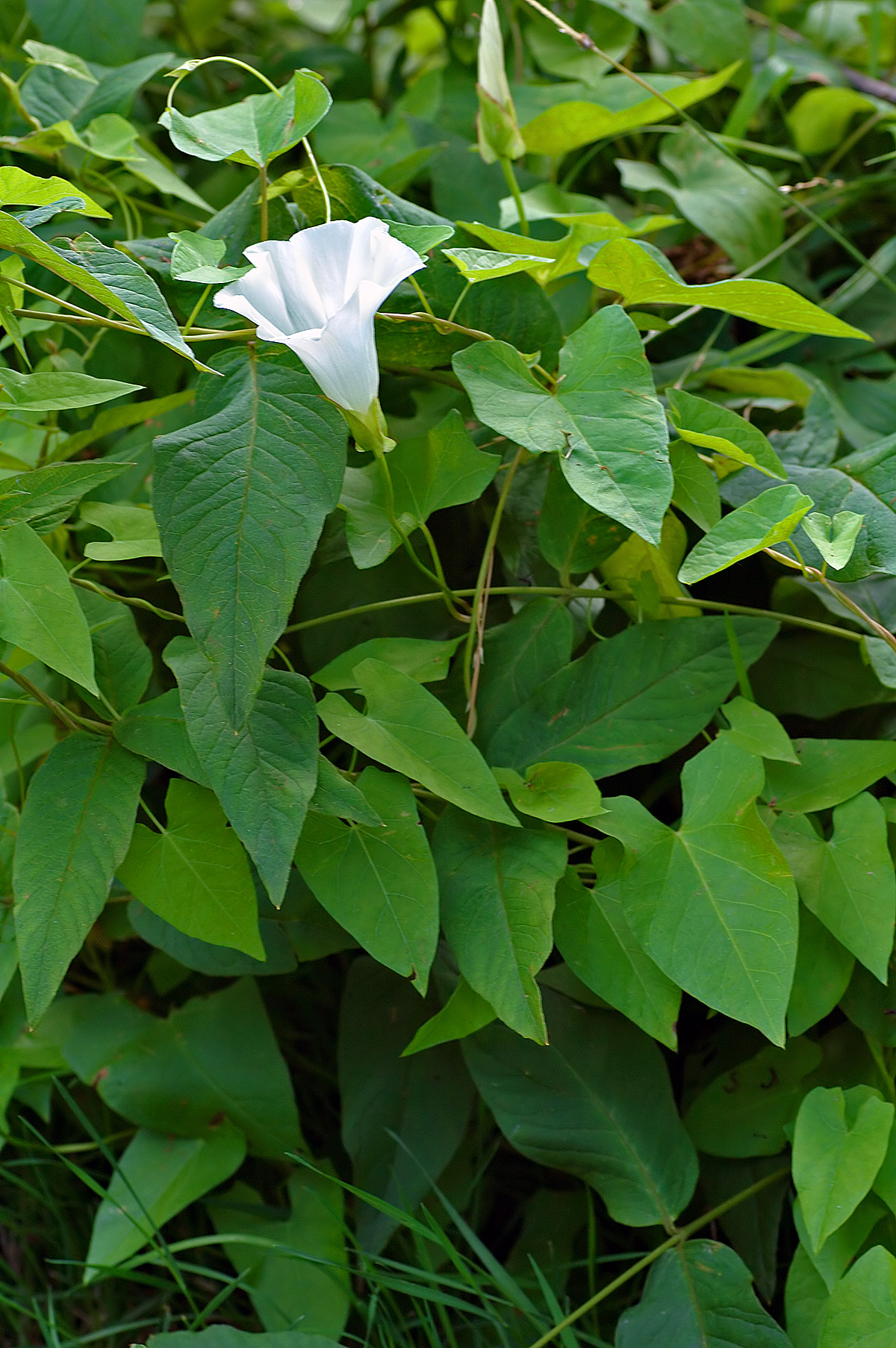 This image shows a Hedge False Bindweed (Calystegia sepium sepium).